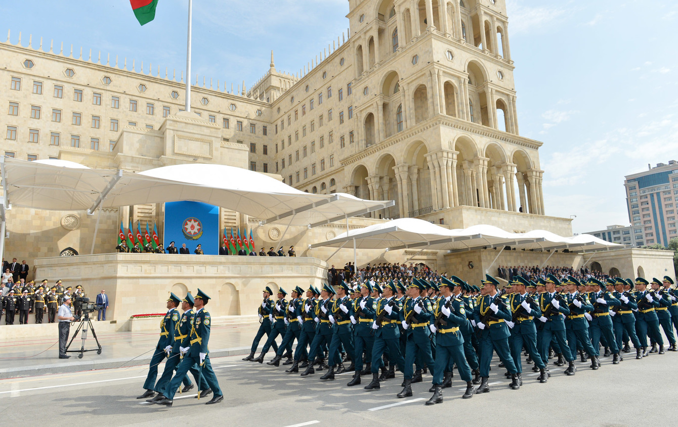 Ilham Aliyev attended the official military parade on the occasion of the 95th anniversary of the Armed Forces